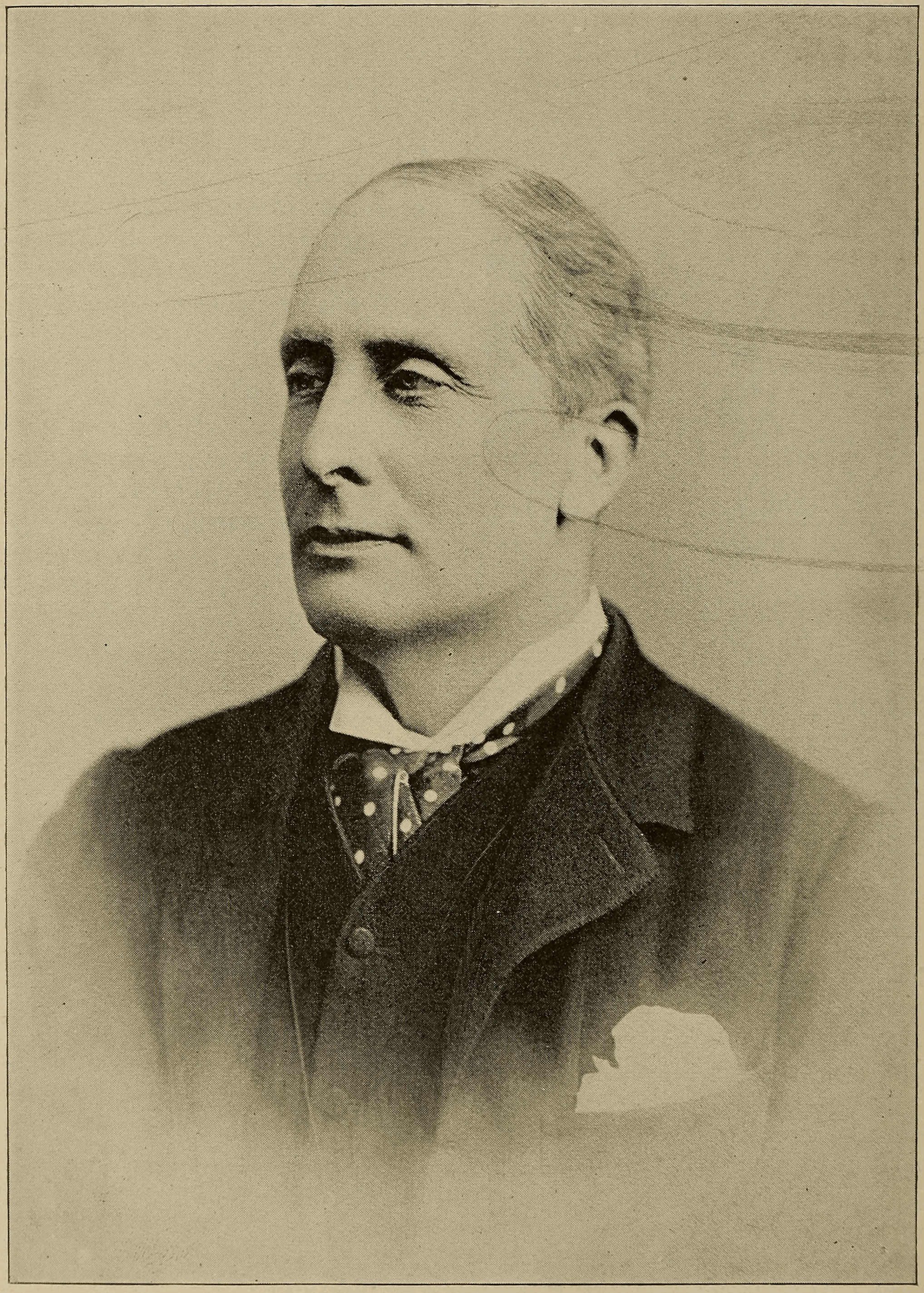 Cassier's Magazine of January 1895 had an article on page 260-263, titled Ralph Hart Tweddell. It was accompanied by this illustration (signature cropped), on page 186.